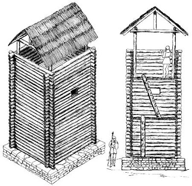 Old Colchian architecture tower houses